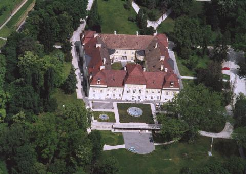 Hőgyész - Mercy-palace, Hungary, aerialphotography This is a photo of a monument in Hungary, Identifier: 8631